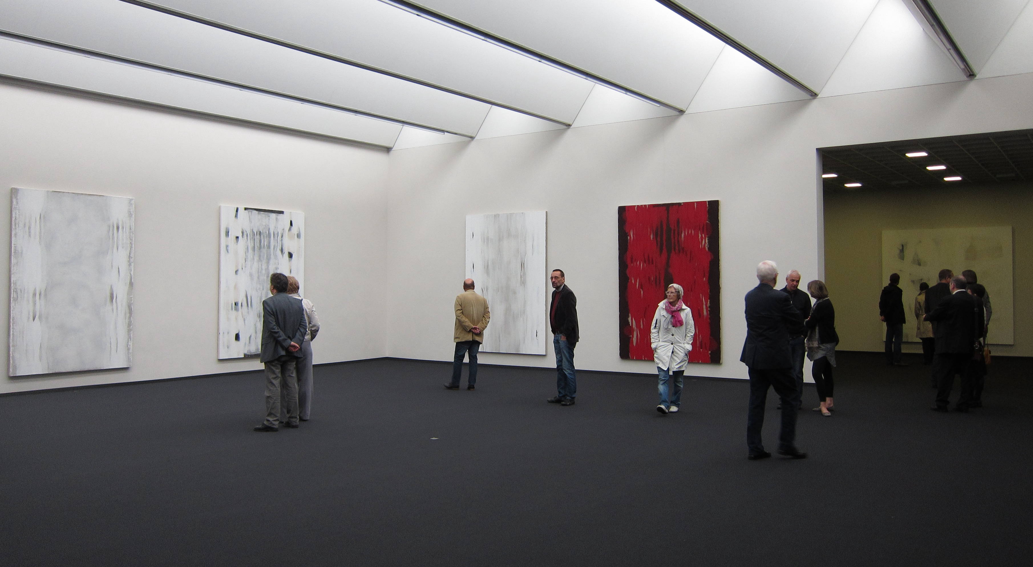 exhibition opening at the josef albers museum bottrop